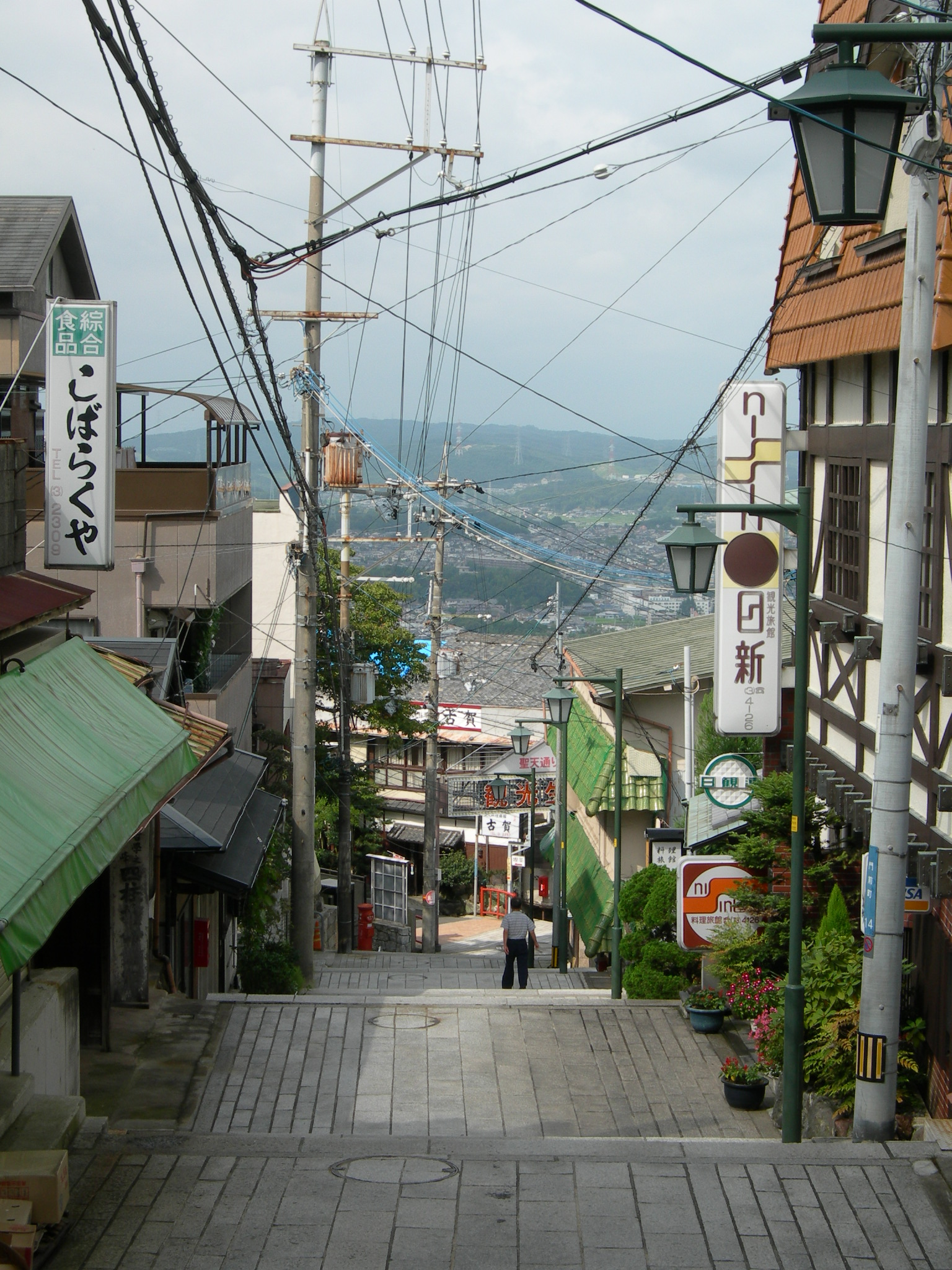 Ryokan in Hozanji Shinchi from Ikoma, Nara. taken in 2009.